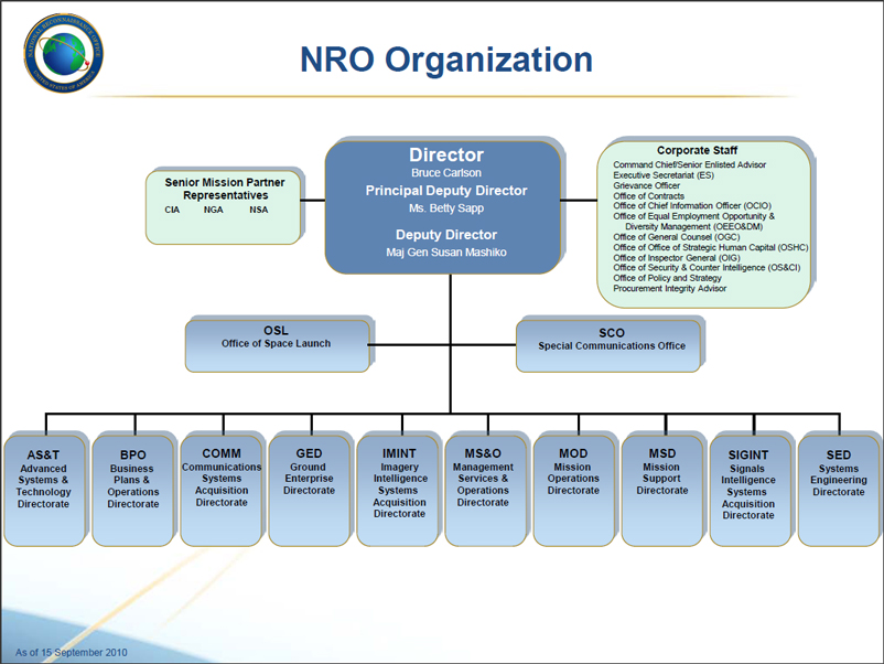 Organizational Chart of the National Reconnaissance Office